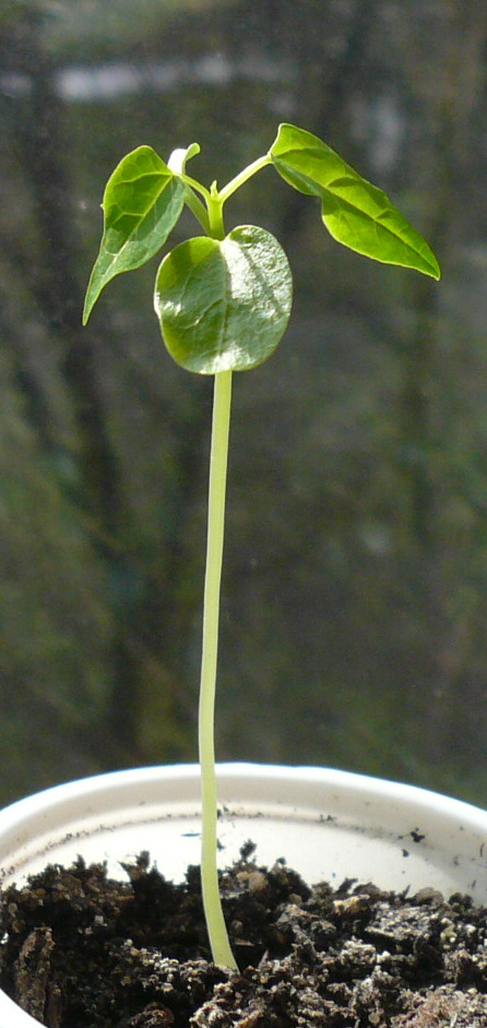 Papaya seedling